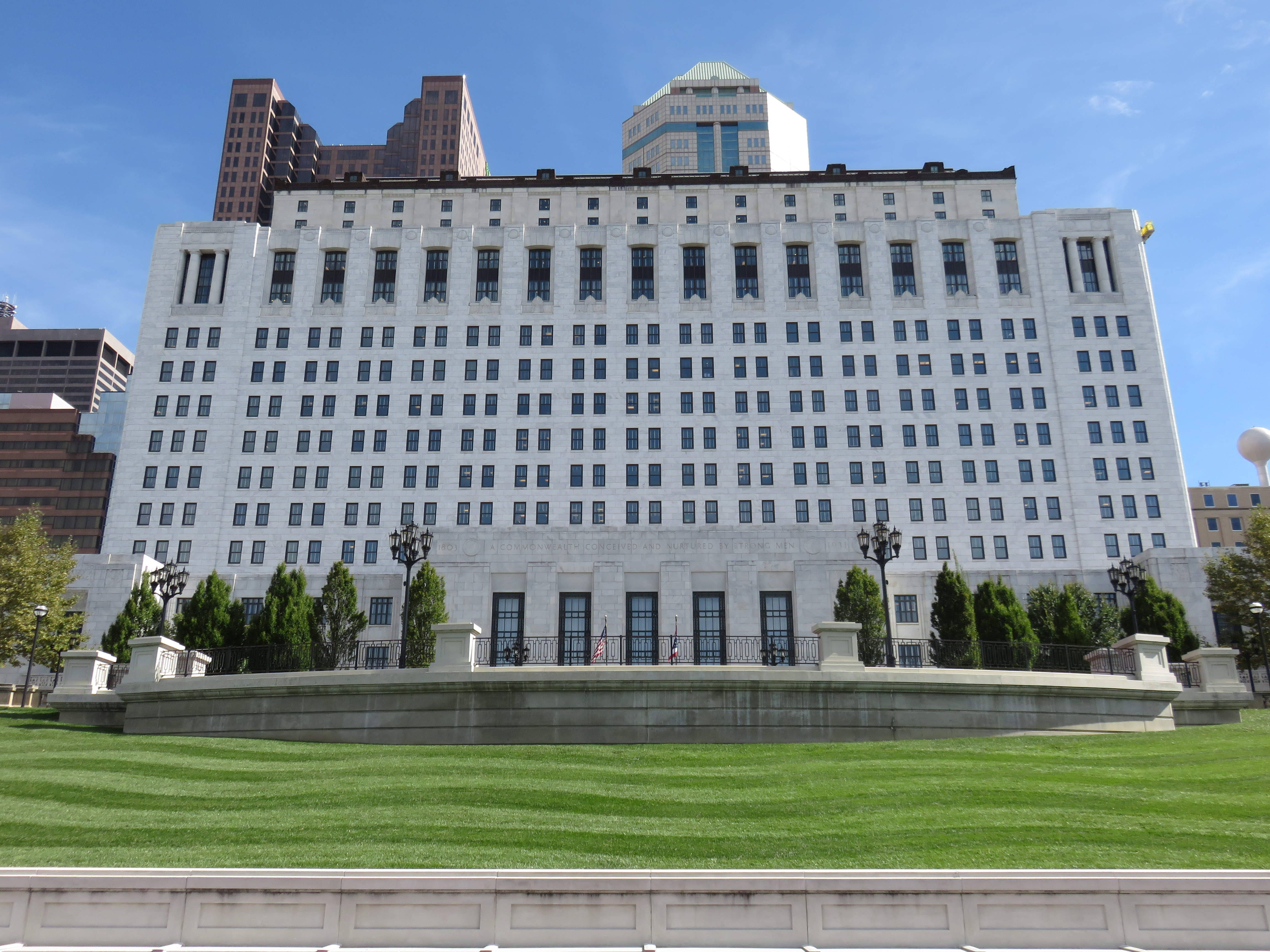 Ohio State Office Building in Columbus, Ohio in 2018